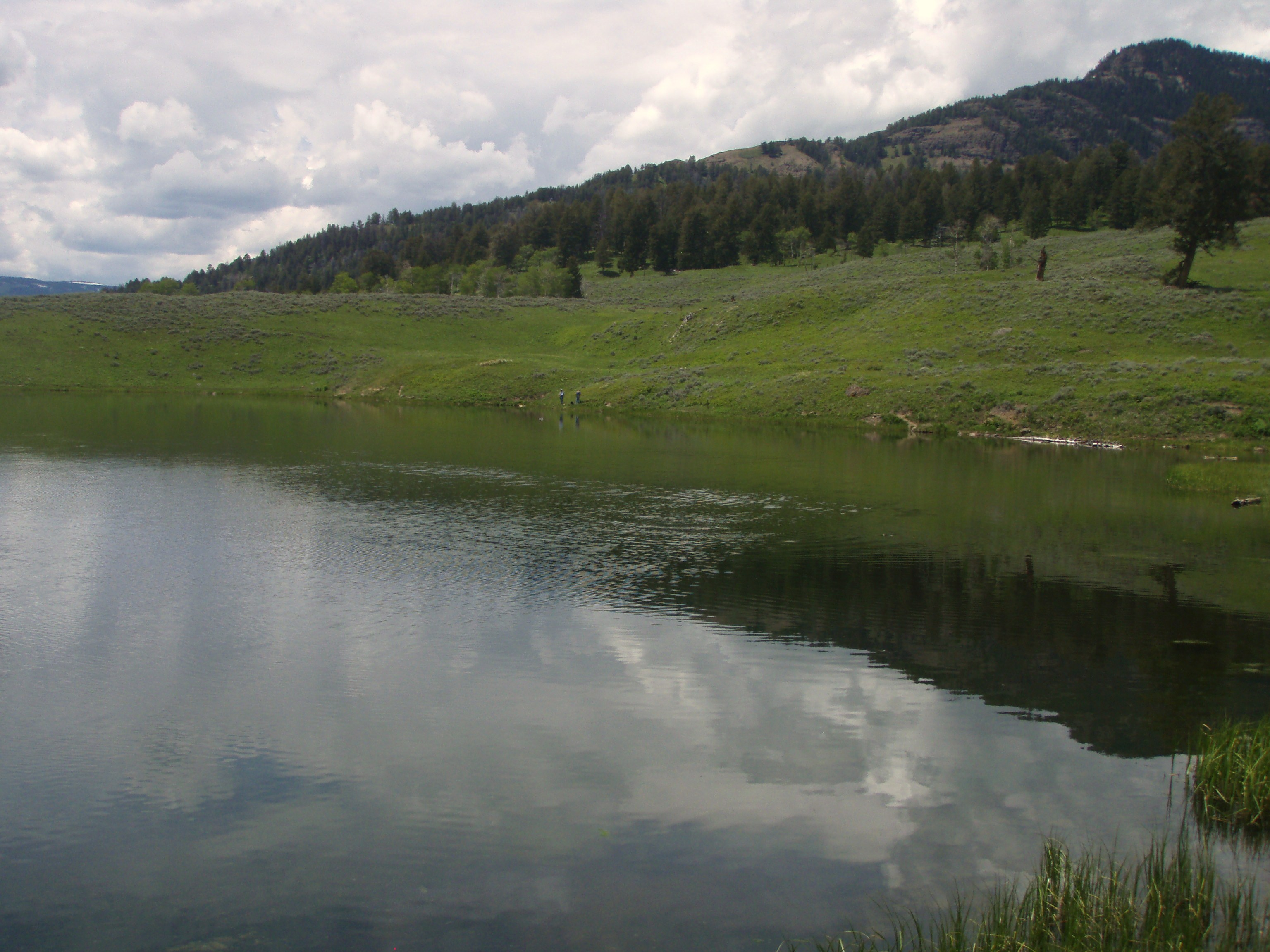 Trout Lake, Yellowstone National Park, June 2009